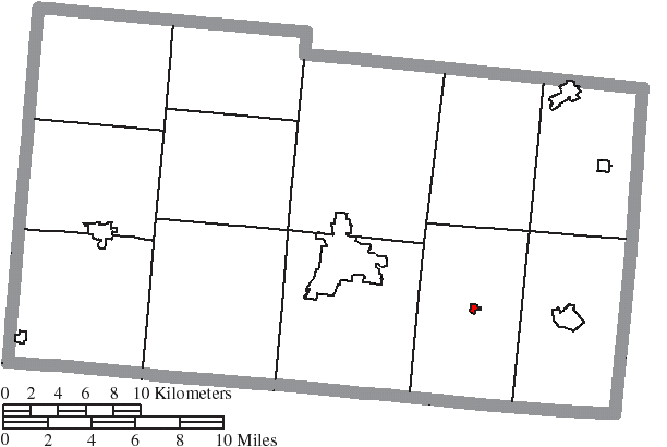 Map of the municipal and township boundaries of Champaign County, Ohio, United States, as of the 2000 census, with the location of the village of Mutual highlighted. Township borders are shown only in unincorporated areas in order to differentiate incorporated and unincorporated areas more clearly.